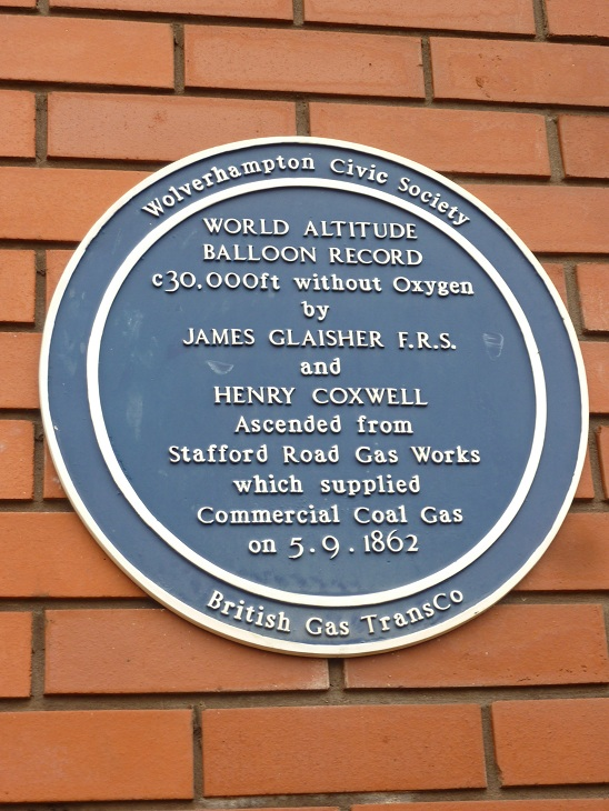 A blue plaque at Wolverhampton Science Park, Gorsebrook, marking the location of the World Altitude Balloon Record on Friday 5th September 1862.